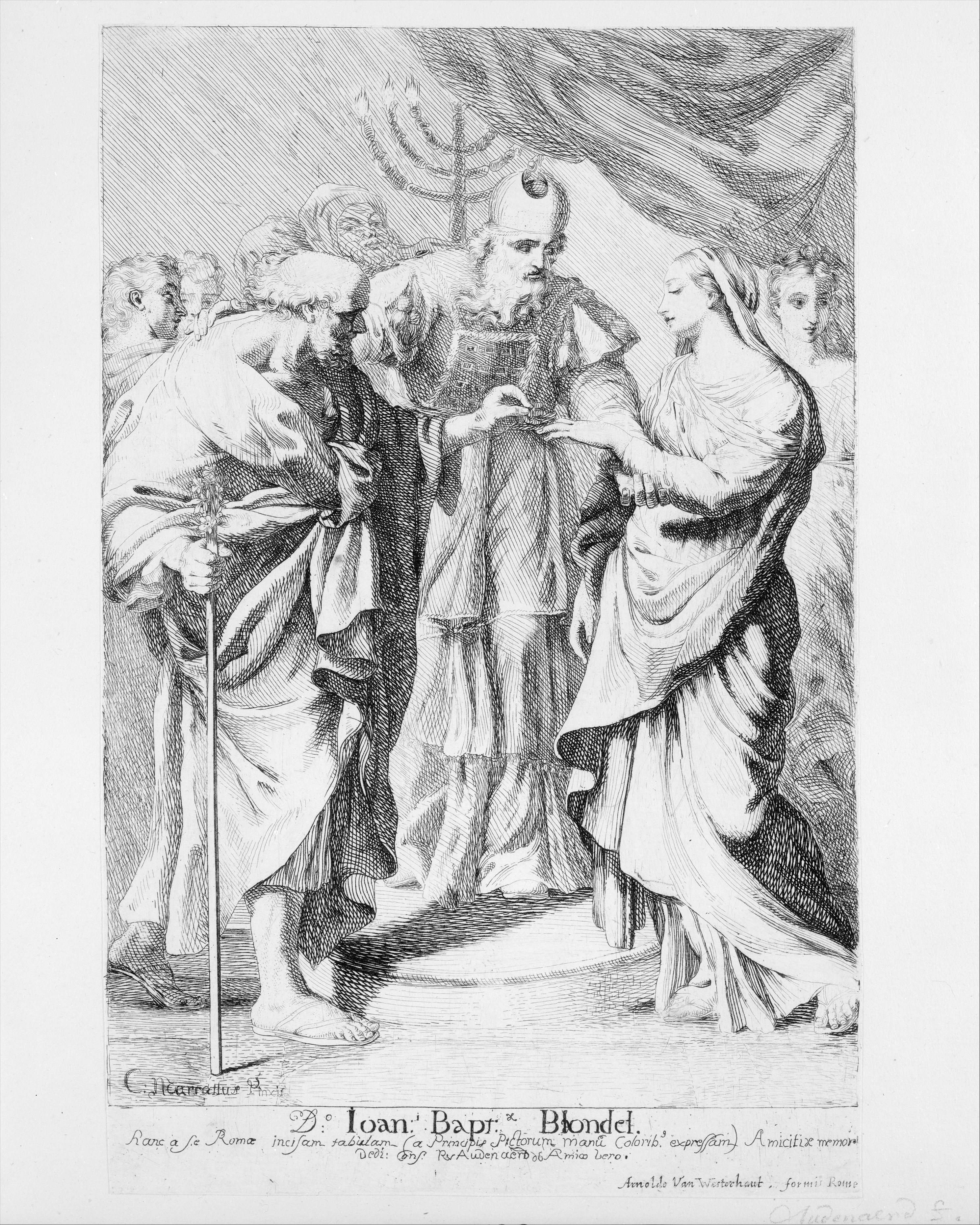 Print; Prints